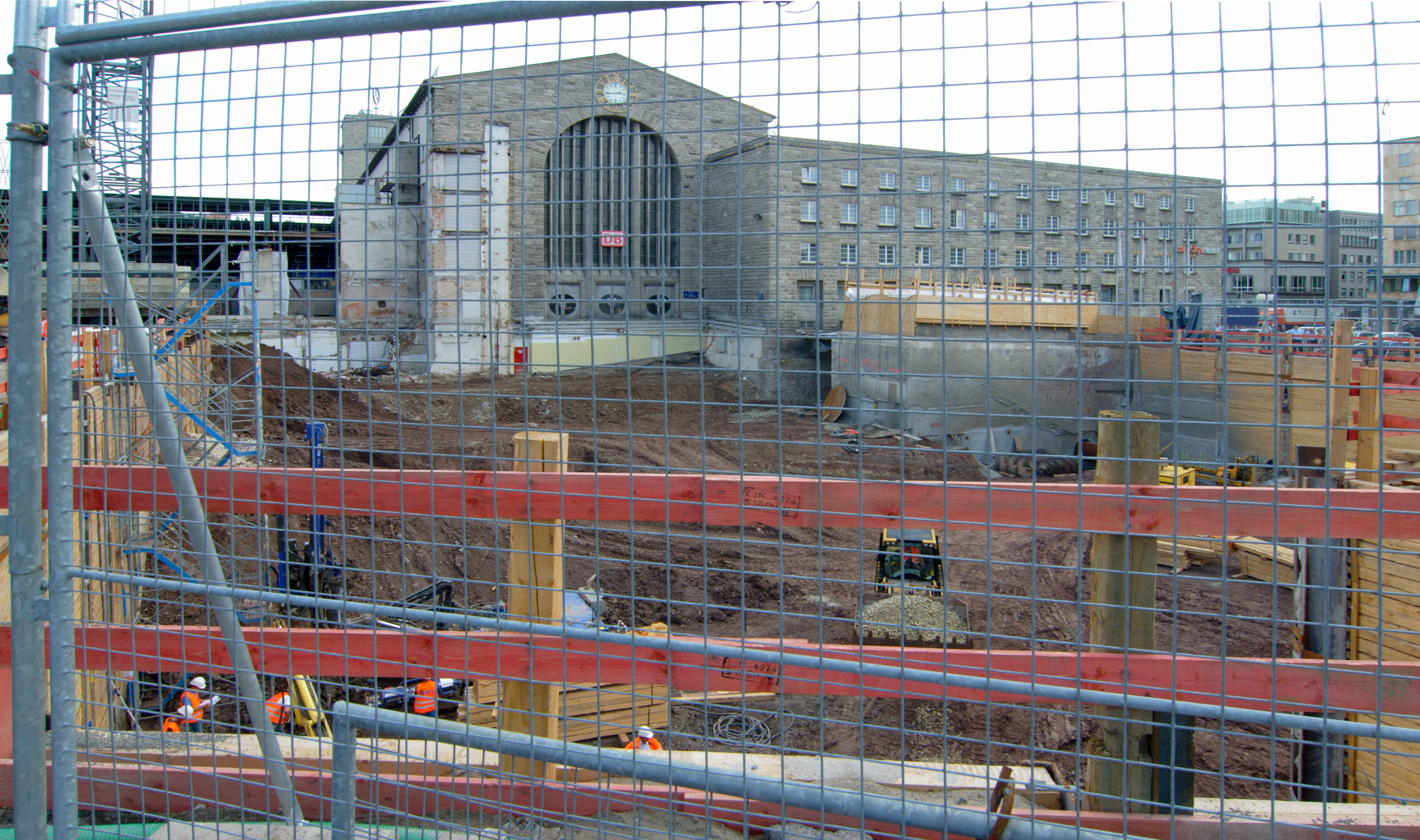 Stuttgart 21: Construction pit for the subsurface technical support building next to the north portal of Stuttgart Hauptbahnhof